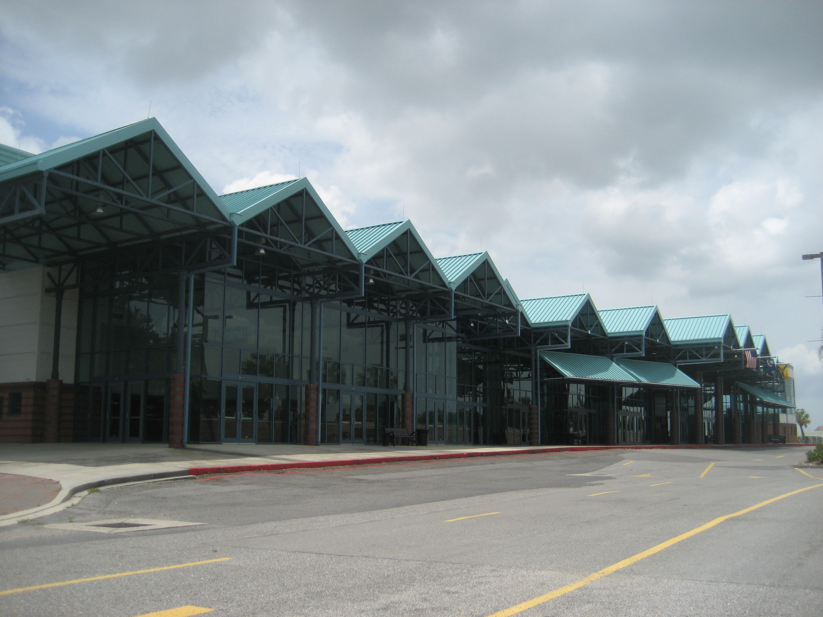 Pontchartrain, Kenner, Louisiana. Exterior.